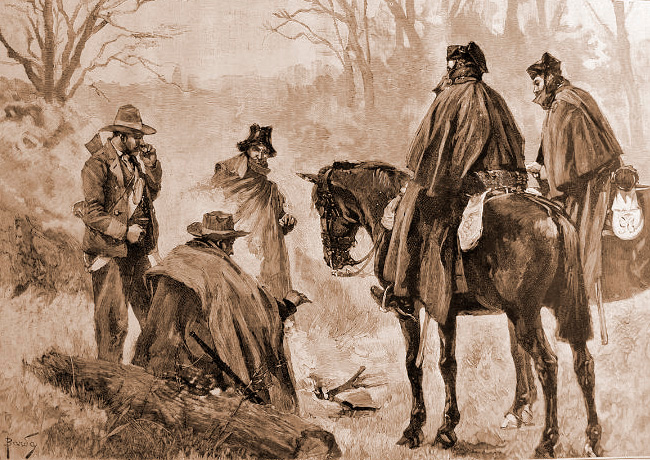 Recreación de contrabandistas del campo de Gibraltar capturados por la Guardia Civil. Principios del Siglo XX.